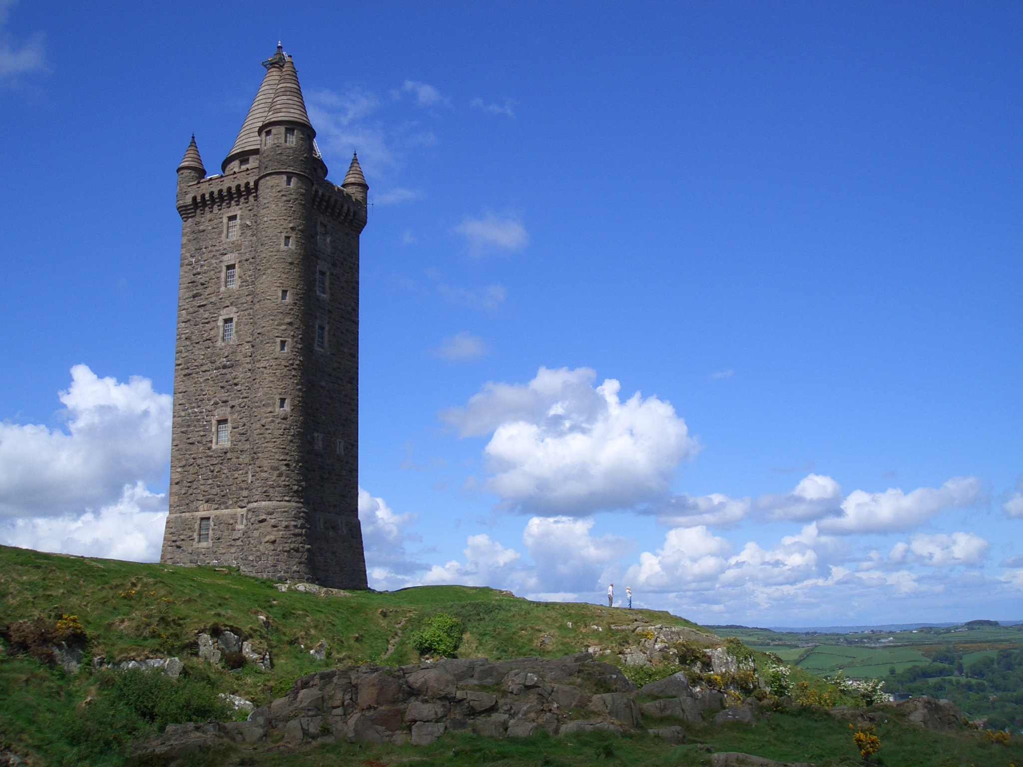 View of Scrabo Tower in Newtownards, County Down, Northern Ireland (Taken with Casio Exilim EXS100 on Sunday 20th May 2007 at 13:00)